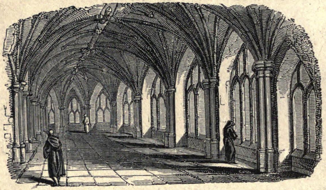 St Thomas on the Bridge: interior view of the Lower Chapel, engraved by G W Bonner after prints by George Vertue, (1684 – 1756), which in turn were based on a survey by architect Nicholas Hawksmoor (1661 – 1736)